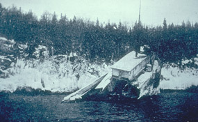 Wreck of the Monarch off Isle Royale in 1906 — the site is within Isle Royale National Park, Michigan.